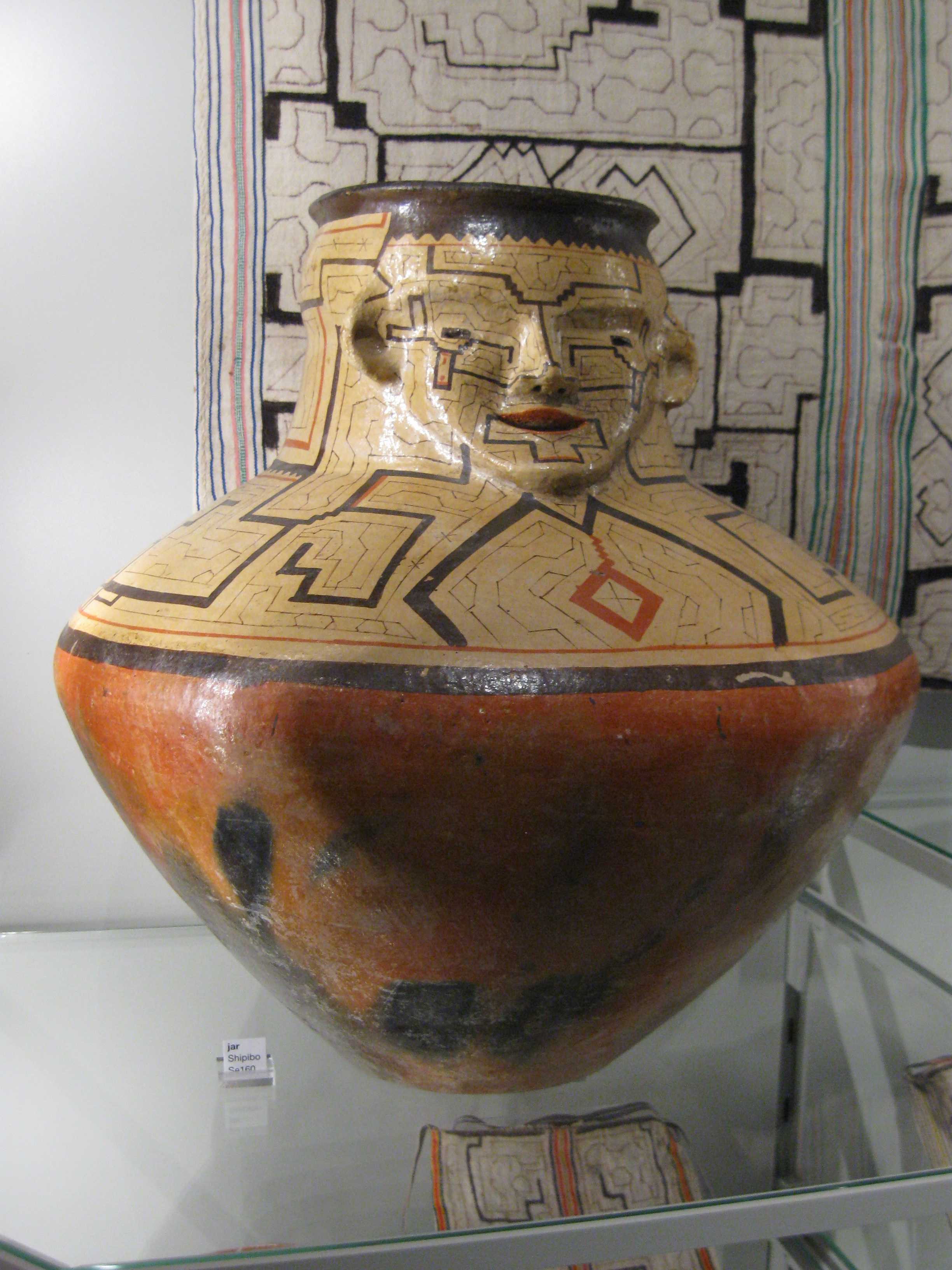 A Shipibo jar now on permanent display at the UBC Museum of Anthropology in Vancouver, Canada. Its museum catalogue number is Se160. The Shipibo (about 35,000 people) live in more than 400 villages along the Ucayali river near the town of Pucallpa in Peru.